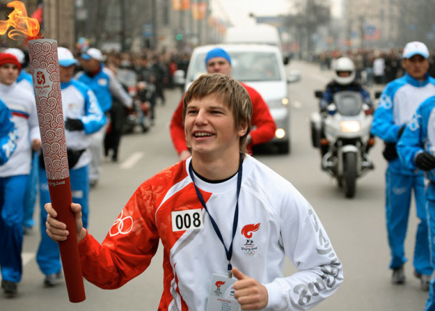 Andrei Arshavin during 2008 Summer Olympics torch relay in St. Petersburg